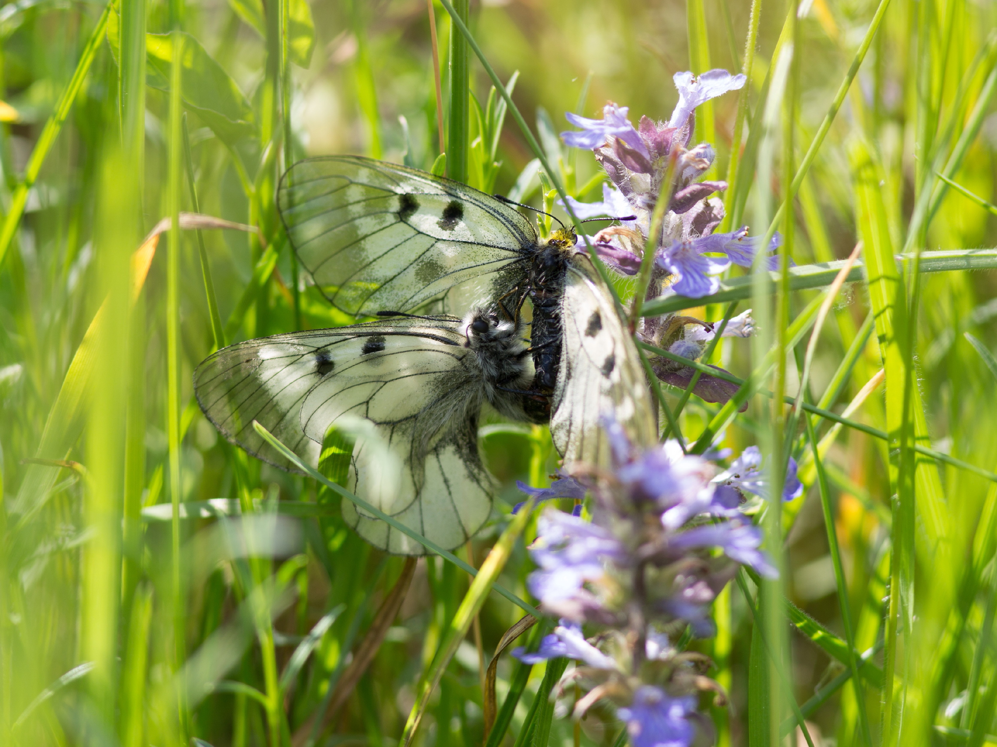 Clouded Apollo (Parnassius mnemosyne) copulating near Graz, Austria